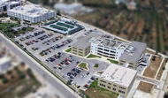 Building block A